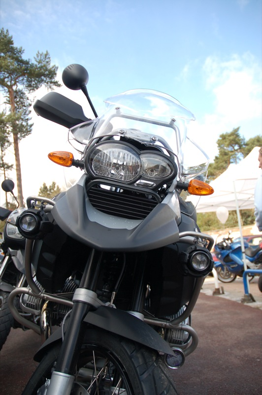 BMW R1200GS Adventure front view. The wider tank and engine bars give the bike huge road presence.